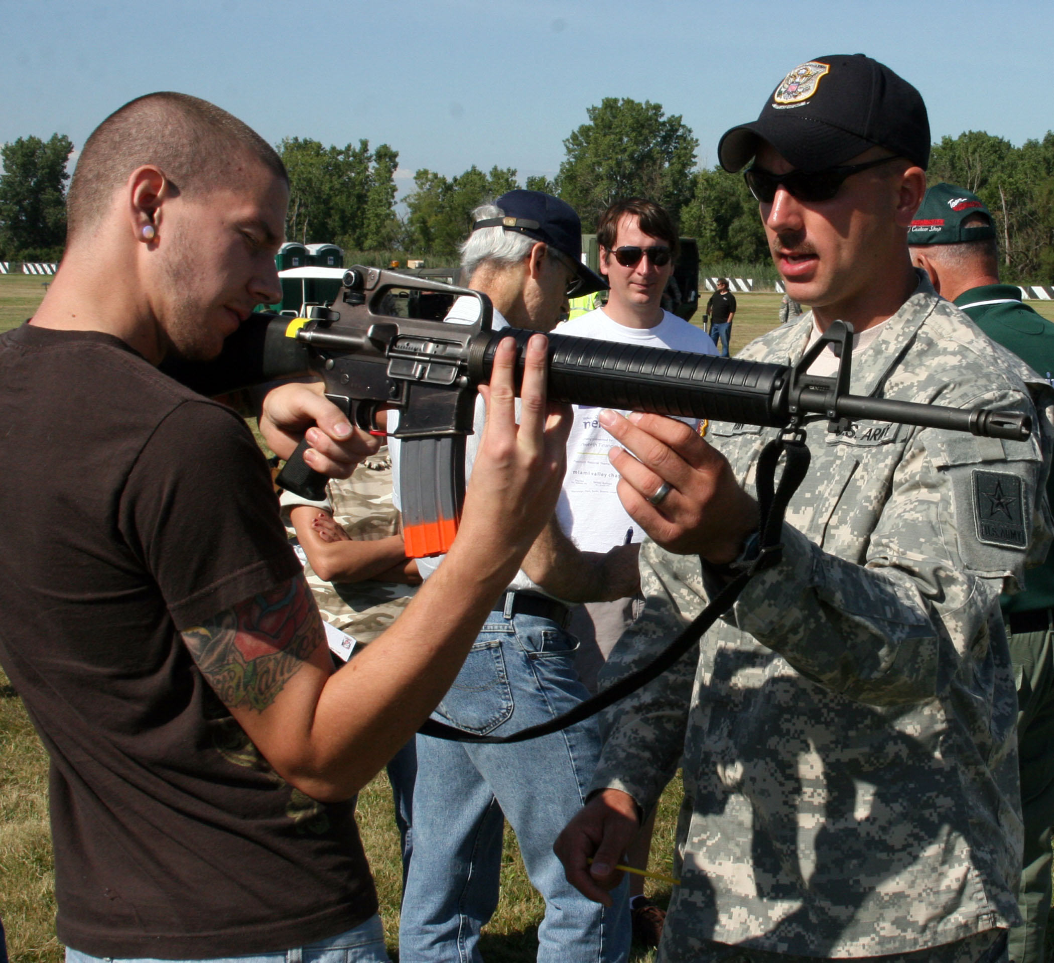 Spc. Joseph Hein, U.S. Army Marksmanship Unit, instructs a student on the intricacies of the M-16A2 rifle during the Small Arms Firing School, Aug. 1, 2009 at Camp Perry, Ohio. Photo by Michael Molinaro, USAMU PAO See more at Soldiers take time out to teach new shooters